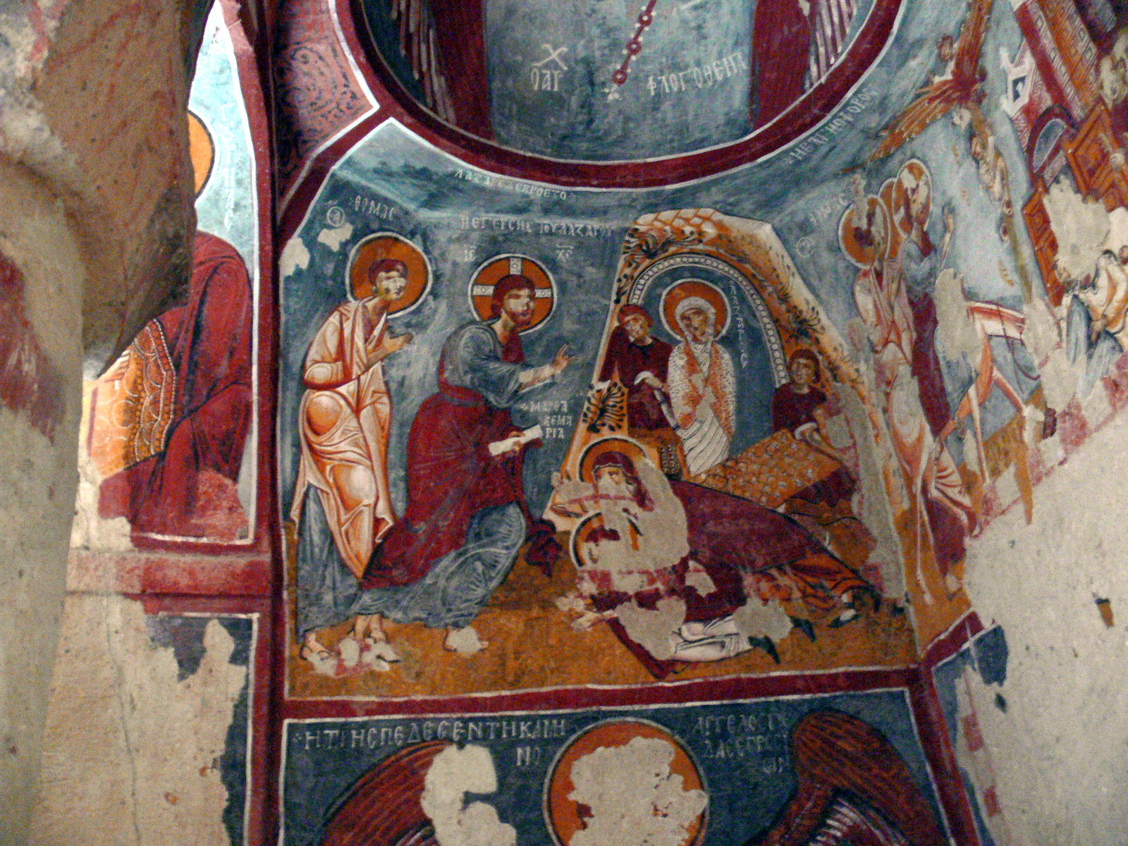 Elmali kilise ( Göreme ). Fresco ( 11th century ) of the resurrection of Lazarus.